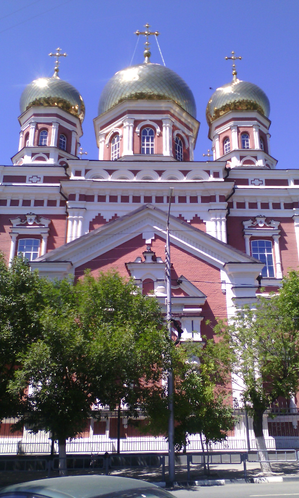 Church of the Intercession of the Holy Mother (Church of Pokrov), Gorky St., Saratov